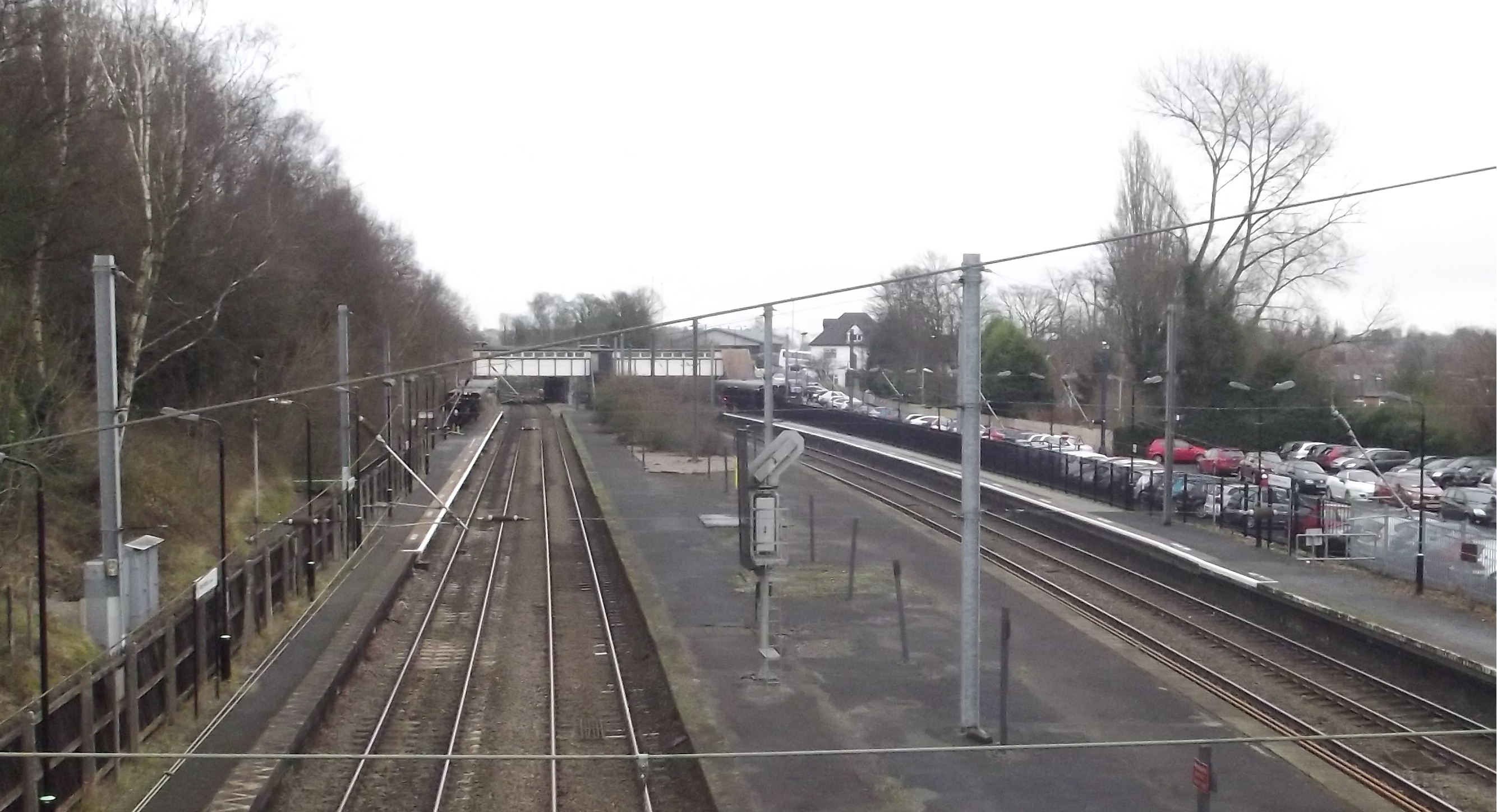 After returning from Redditch, I decided to check out the green footbridge at Kings Norton Station, which has been recently painted with local images to make it nicer. There is the odd graffiti tag on it though. Otherwise it looks nice! The bridge is lined up with both ends of Station Road in Kings Norton. The artwork on the footbridge! A view of the station - platform 1 on the left, platform 4 on the far right. Unused platforms 2 and 3 in the middle.